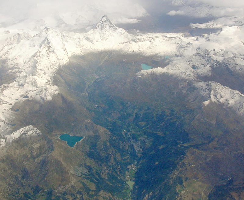 Valtournenche Picture taken and edited by user Idefix august 2006